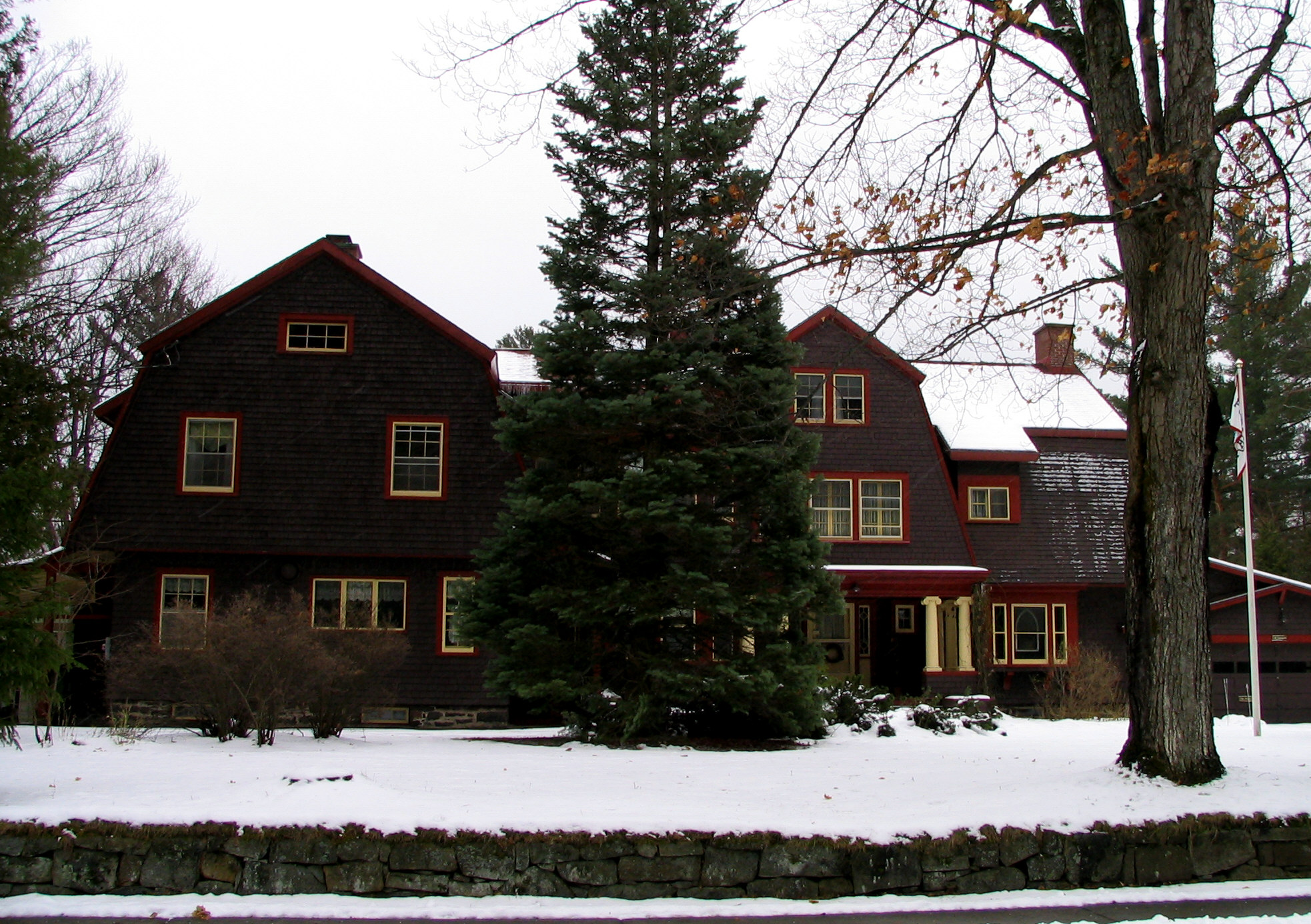 The "Porcupine" Cure Cottage, Saranac Lake, New York Taken by User:Mwanner 29 November, 2007.